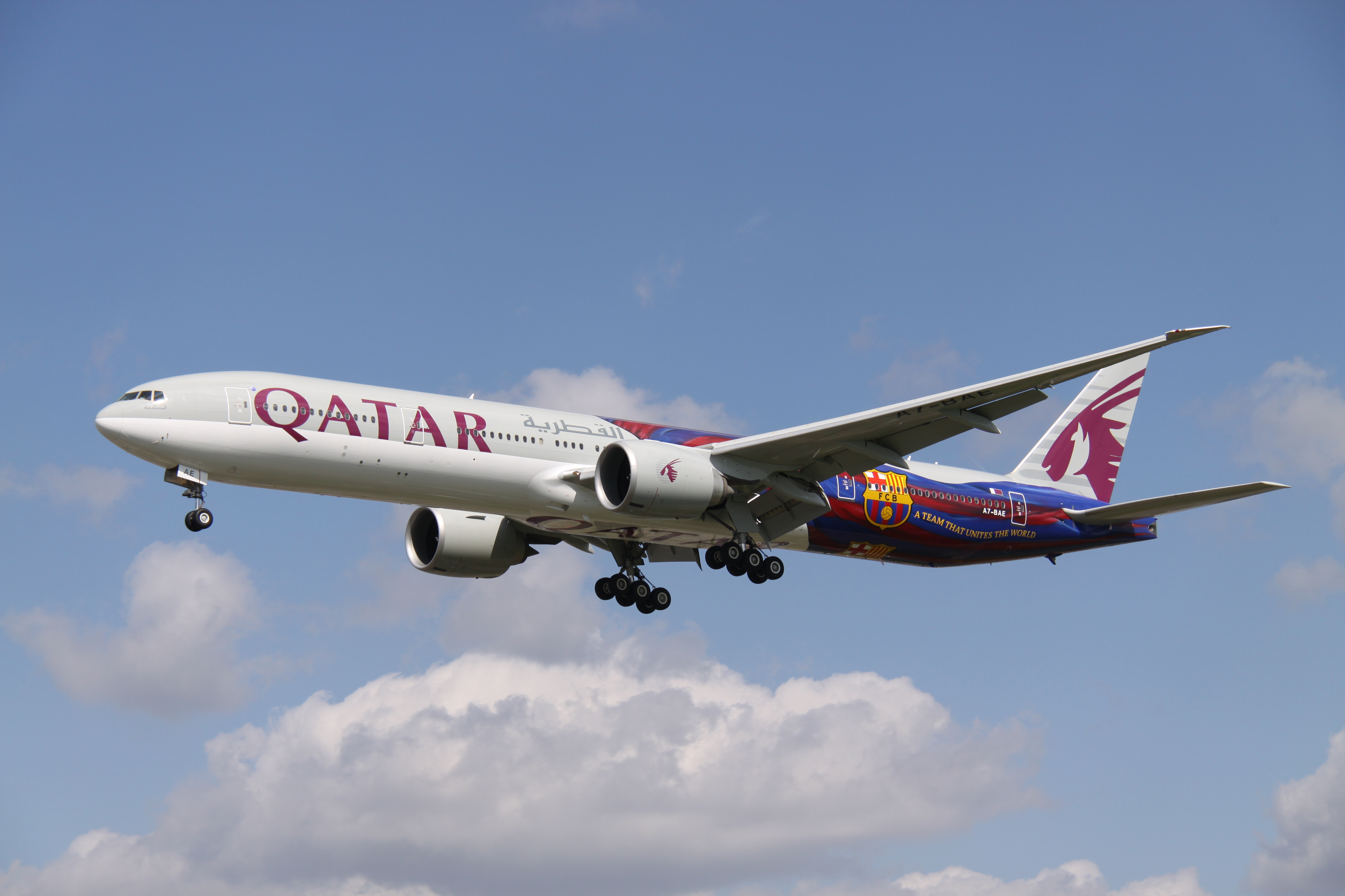 A7-BAE Boeing B.773 Qatar In FCB Barcelona At London Heathrow